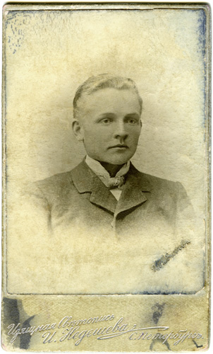 Ivan Lucewicz (Yanka Kupala, 1882-1942), the photo was taken when he worked on an estate in Mogilowska Gubernia, 1904.